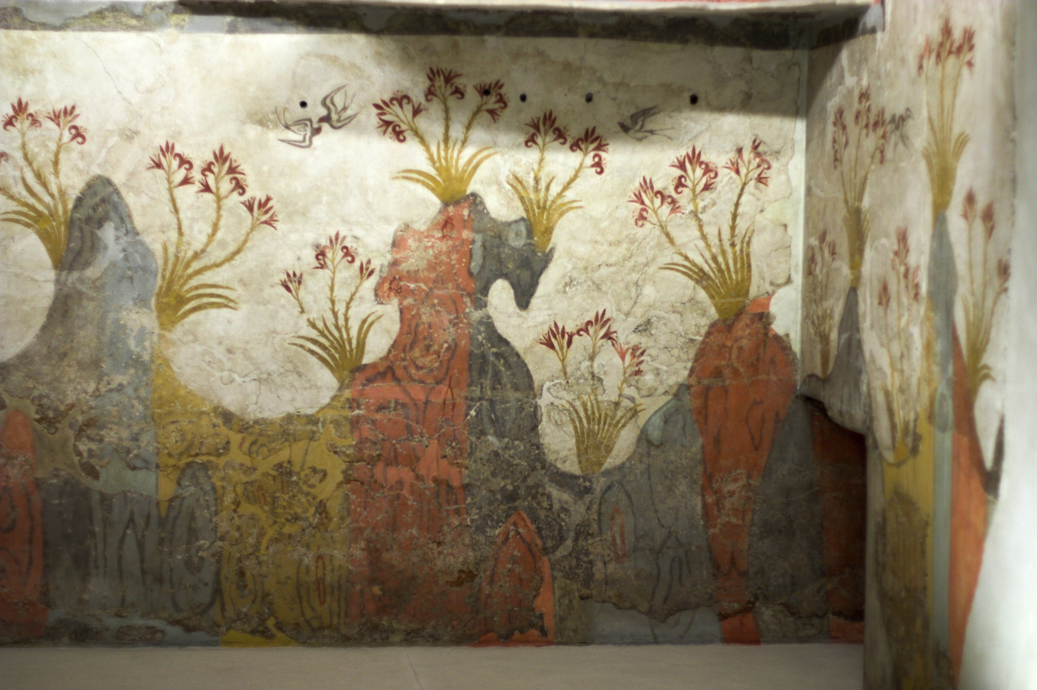 "Spring fresco." Part of the room D1 from Akrotiri, 16th century BC. National Archaeological Museum of Athens BE 1974.29.